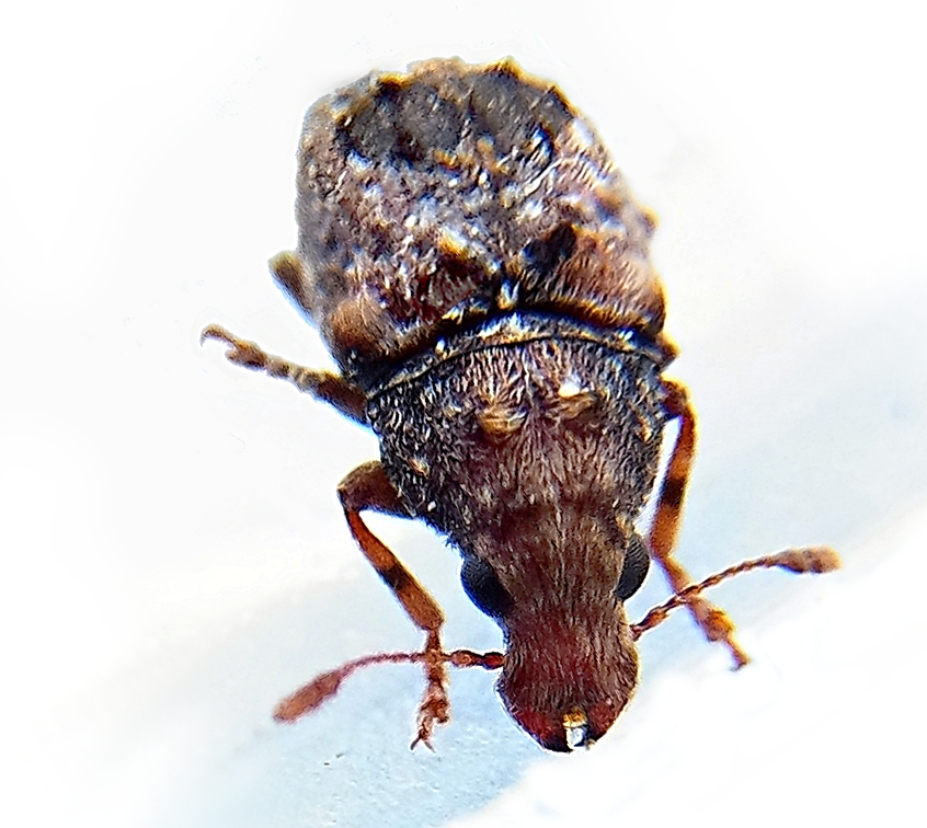 Enedreytes sepicola from France 20 km east of Clamecy at 2013-04-17